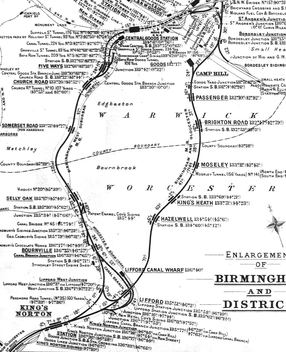 1913 Midland Railway distance map of south Birmingham